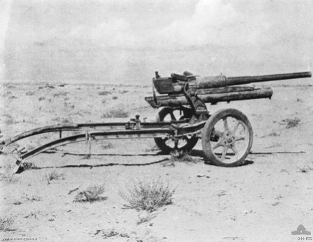 AWM caption : "Bardia, Cyrenaica, Libya. c. 1941. An Italian 47mm anti tank cannon used by the Italian Army in operations in the Western Desert and abandoned after its defeat by Allied forces."